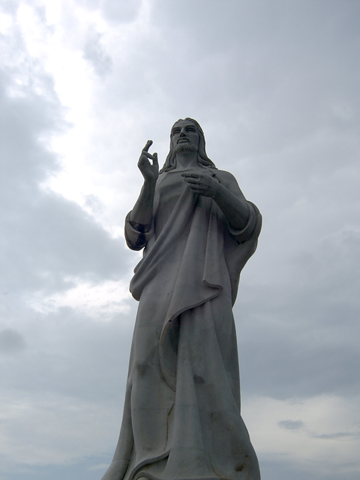 The Havana's Crist.